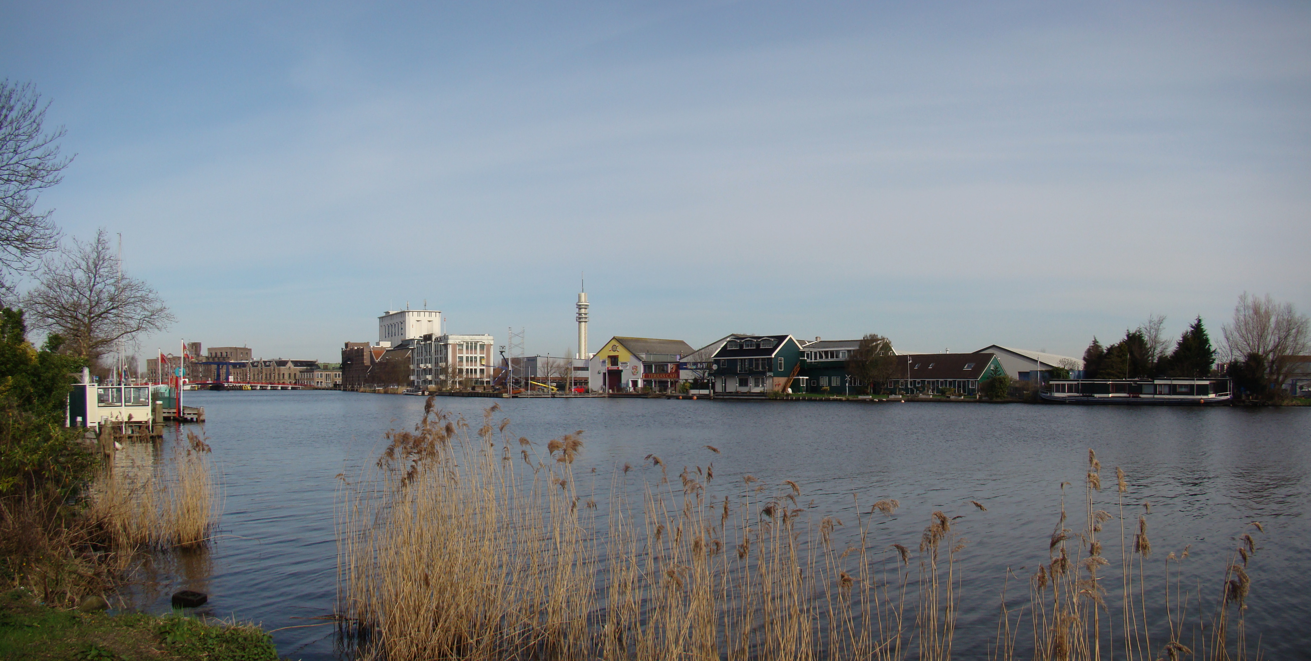 Panoramic view on Wormer (Netherlands) seen from the Zaanweg at Wormerveer